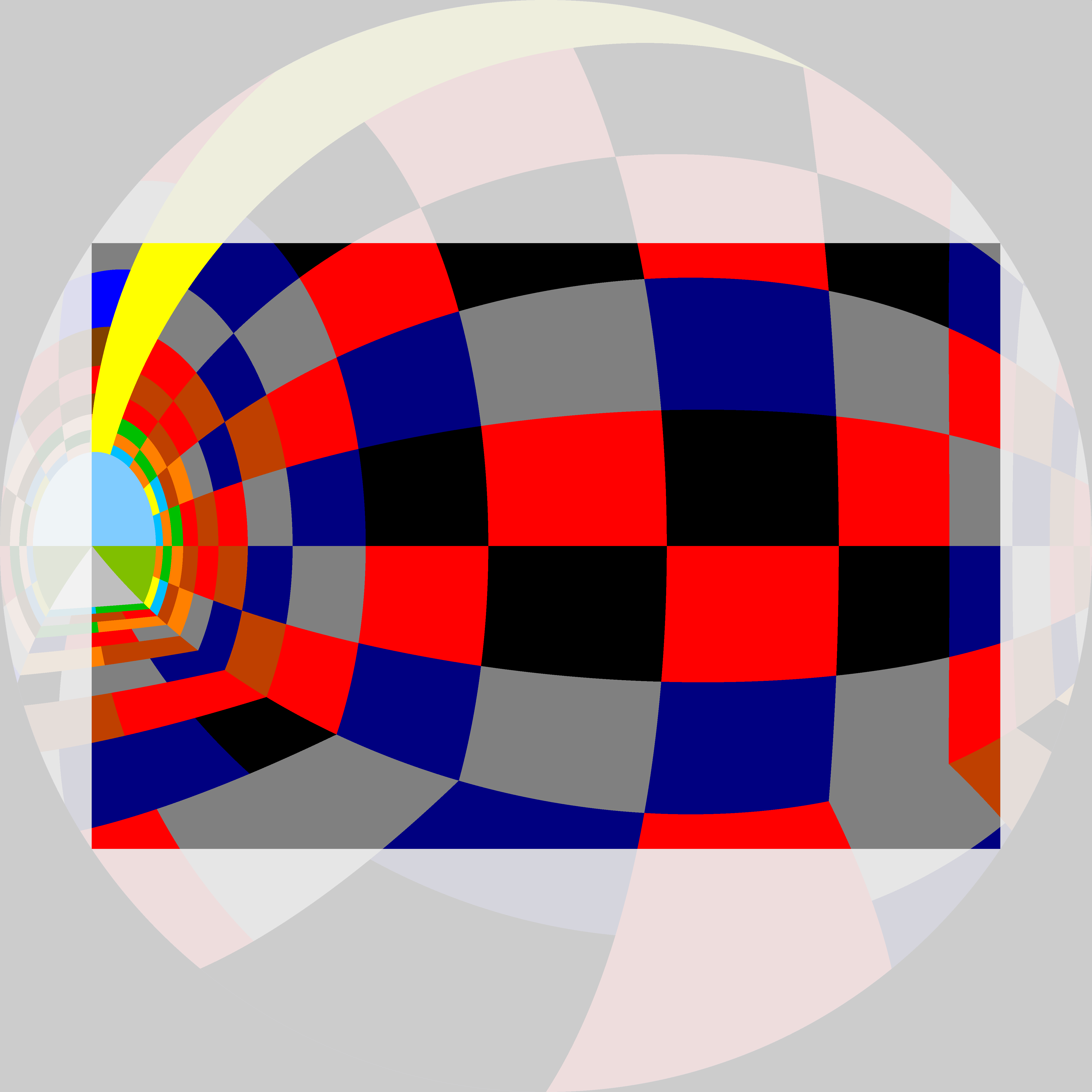 Full frame figure. The image circle of the lens is placed around the diagonal of the 3:2 image sensor. 59% of the field of view are detected by the sensor. The field covers the sensor to 100%. The full number of megapixels is available. The unused image field is shown palely. The object cylinder tunnel in equal-solid representation with left panning 18° and 180° field of view was generated on computer.